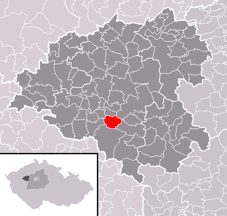 Location of Panoší Újezd municipality within Rakovník District and (identical) administrative area of Rakovník as a Municipality with Extended Competence.